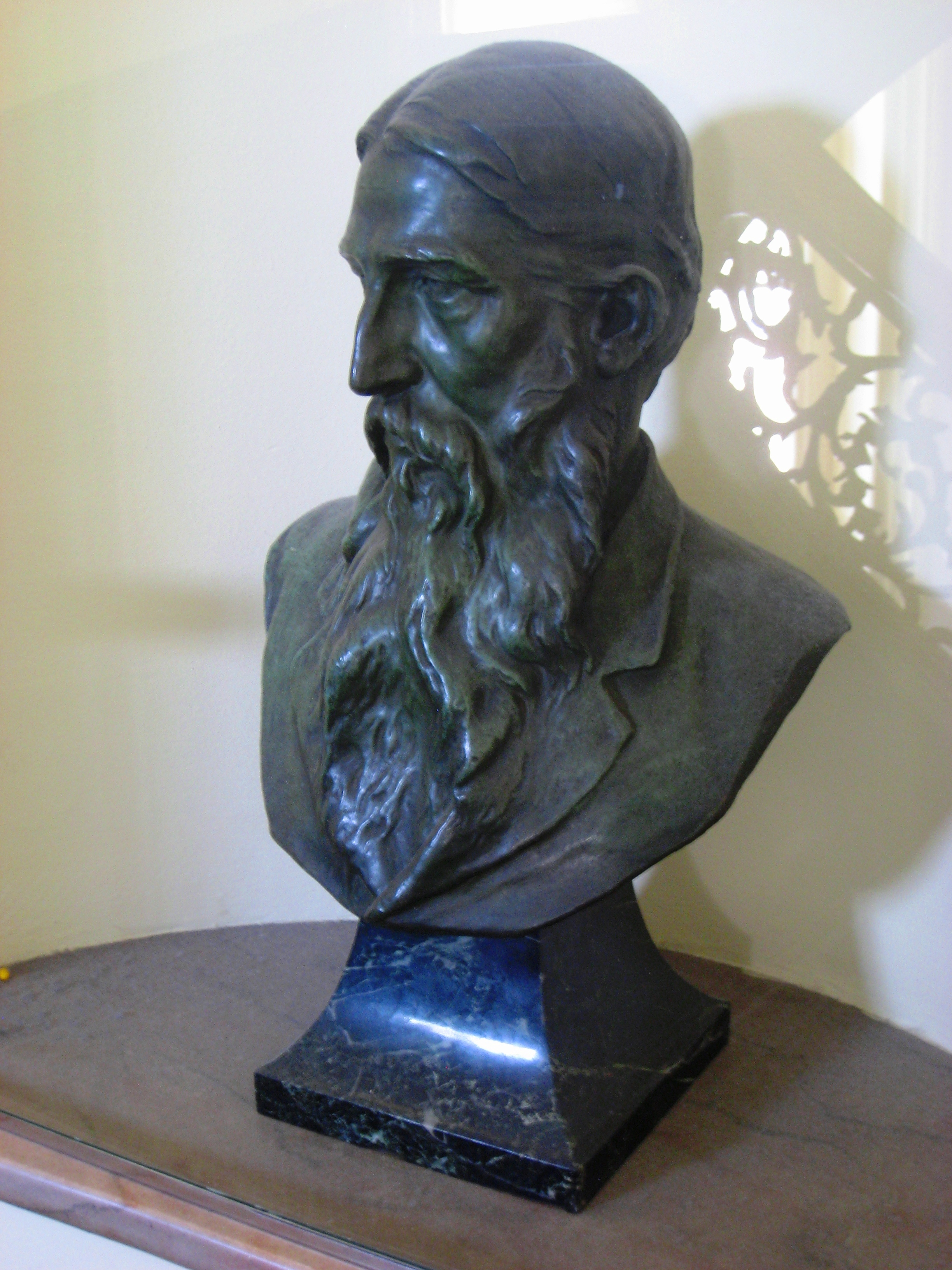 "Sidney Lanier", created prior to 1900 by Ephraim Keyser (1850-1937), in the Peabody Institute, Baltimore, Maryland, USA. There were no prohibitions against photography in the institute. I took this photograph.